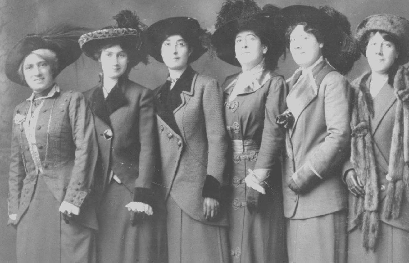 Stella Steinheimer Bauer, with five other women, who were officers of the National Council of Jewish Women - Atlanta Section. Stella was the president from 1910 to 1912 and is first on the right (in the furs).